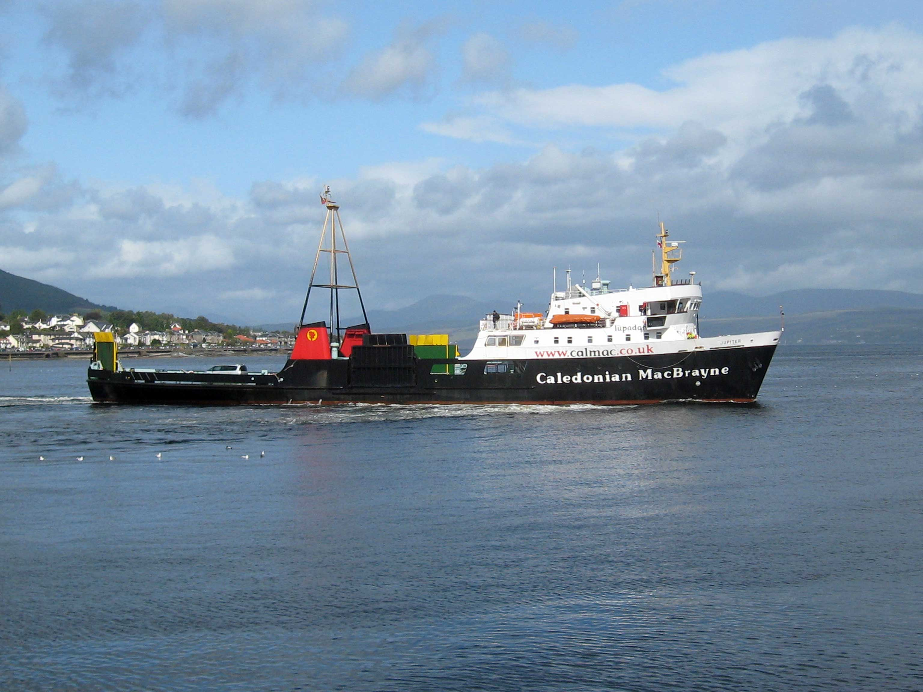 MV Jupiter departing from Dunoon pier.